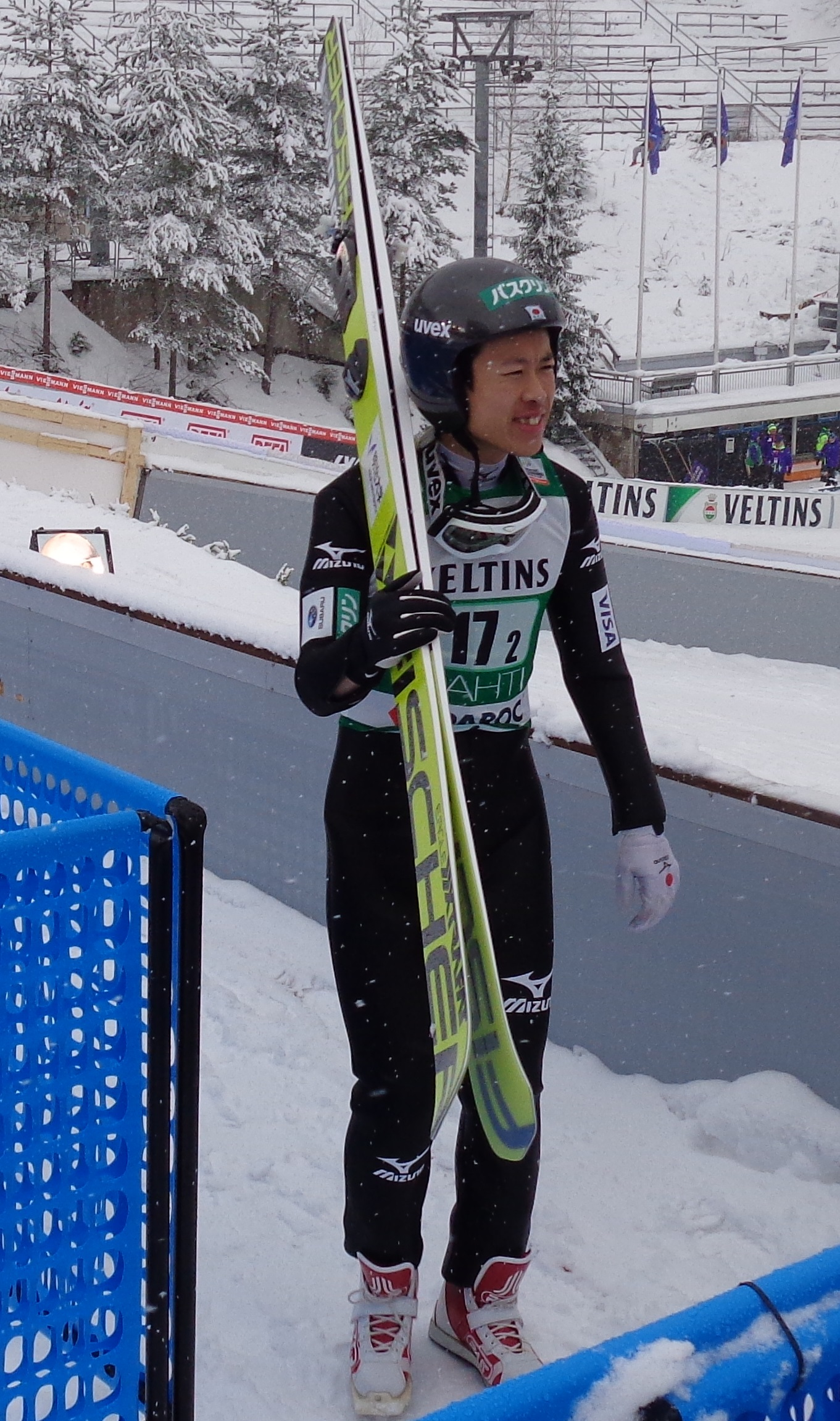 Japanese nordic combined skier Takehiro Watanabe during the Lahti Ski Games 2016.